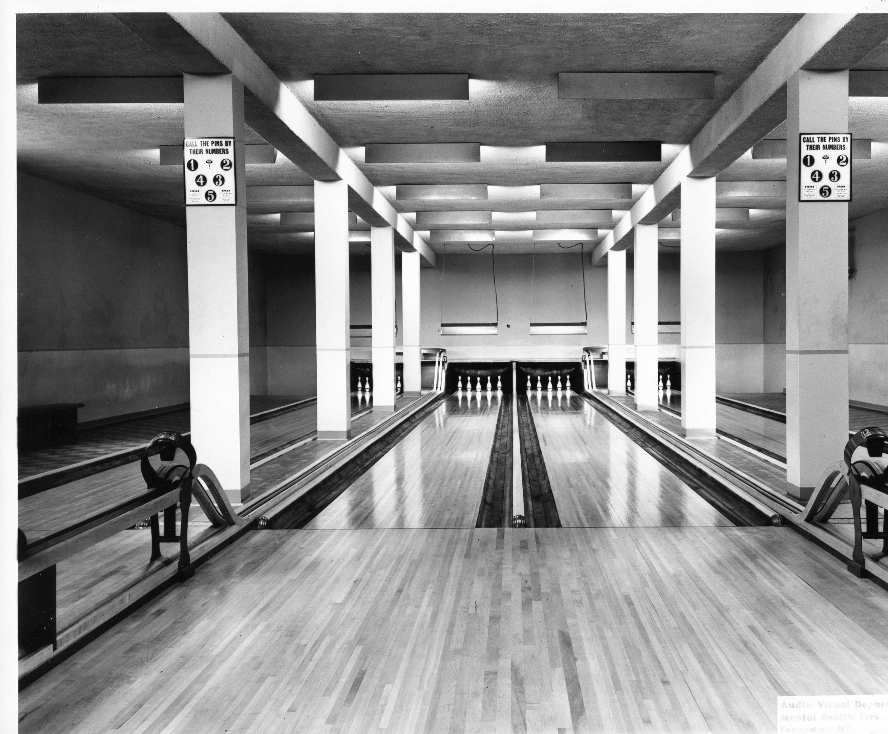 The four-lane 5-pin bowling alley in Pennington Hall in Coquitlam, British Columbia, Canada